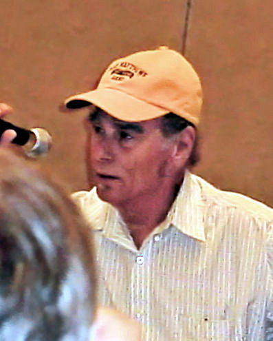 Played by Dean Stockwell